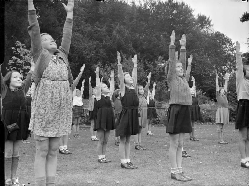 Chipstead Council School- Education and Communal Feeding, Chipstead, Surrey, 1942 Girls at Chipstead Council School stretch their arms high into the sky during a physical training lesson in the grounds of South Lodge, which adjoins the school. South Lodge is the home of Mrs Rudolf who, according to the original caption, has taken a great interest in the school for 25 years.